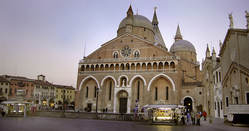 Basilica of Saint Anthony of Padua, Italy.